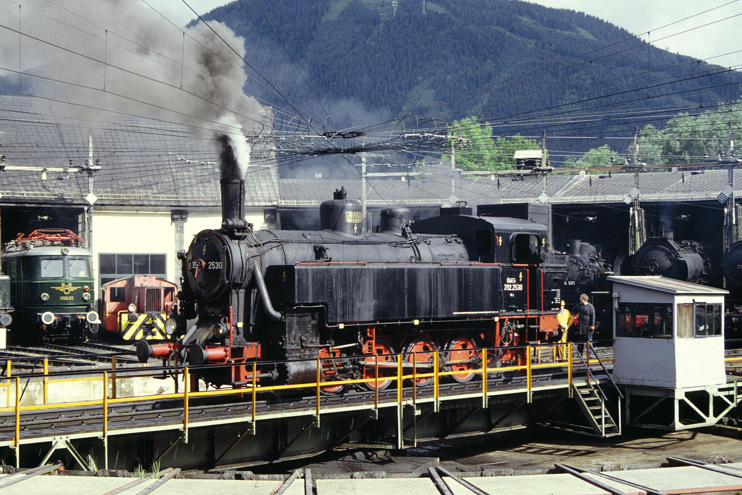 Preserved former ÖBB 392.2530 (today ÖGEG 392.2530) on the turntable in Selzthal during the Dampflokfest 1993.